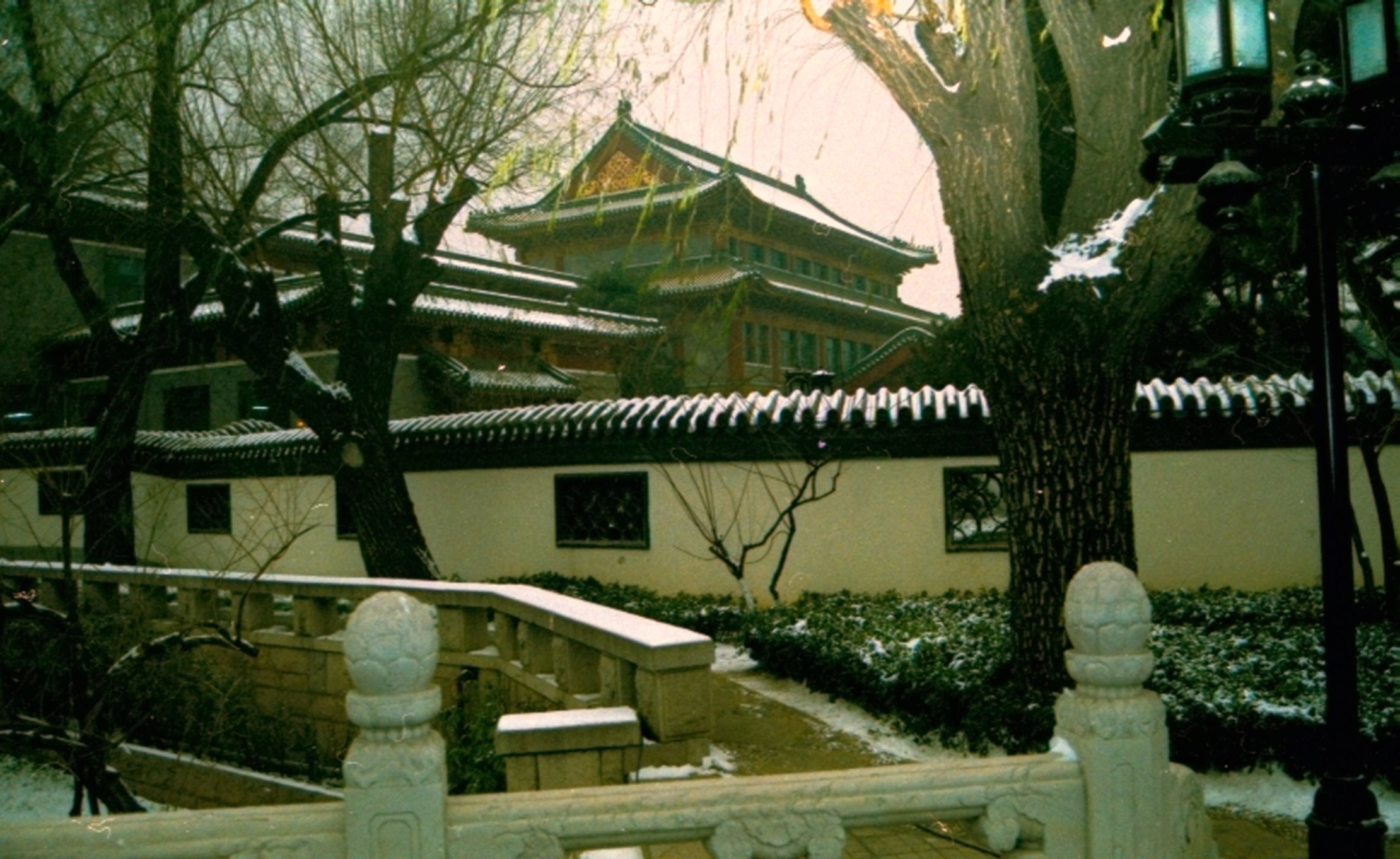 The Diaoyutai State Guesthouse in Beijing, a famous hotel and state guesthouse.